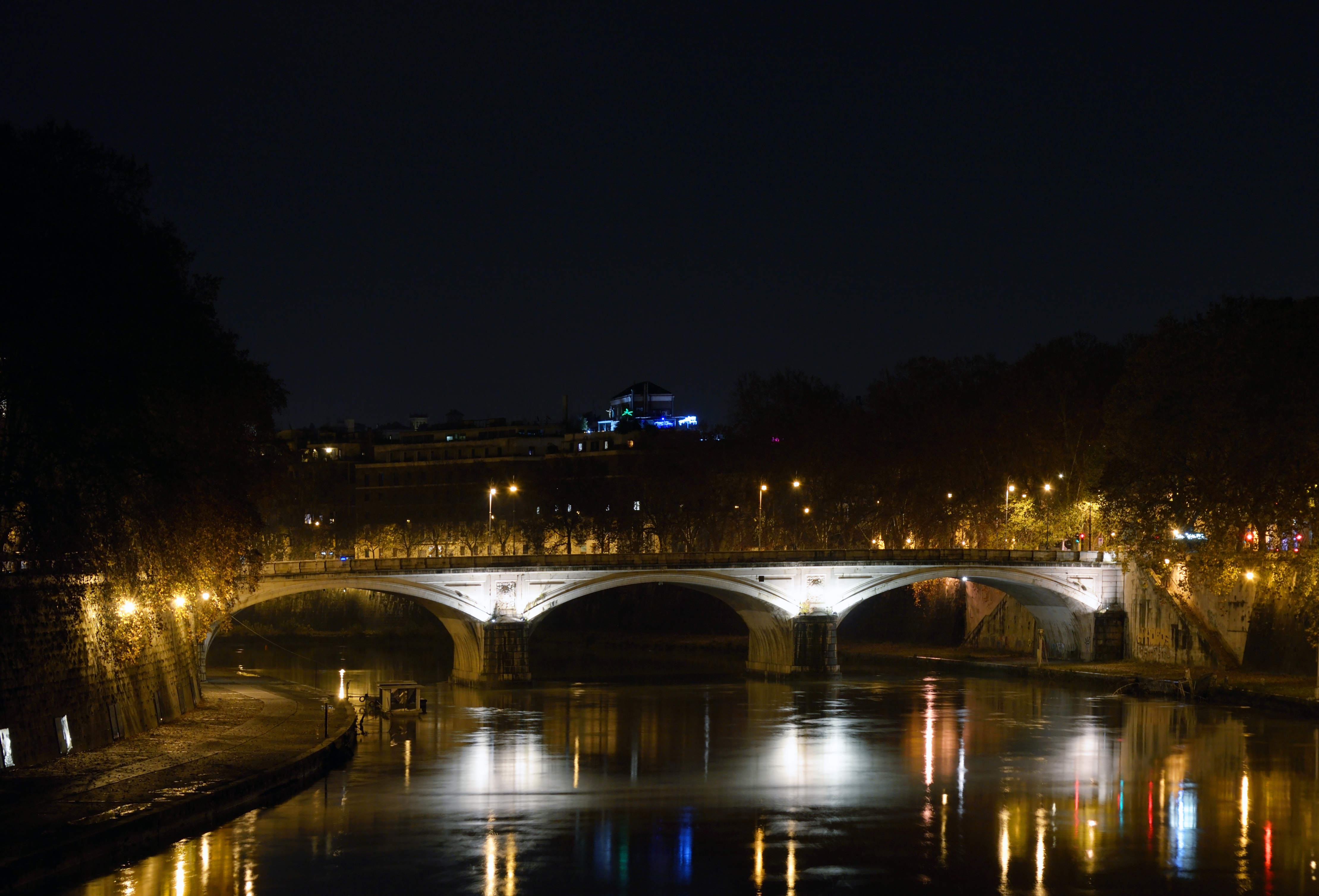 Bridge Umberto I at Night